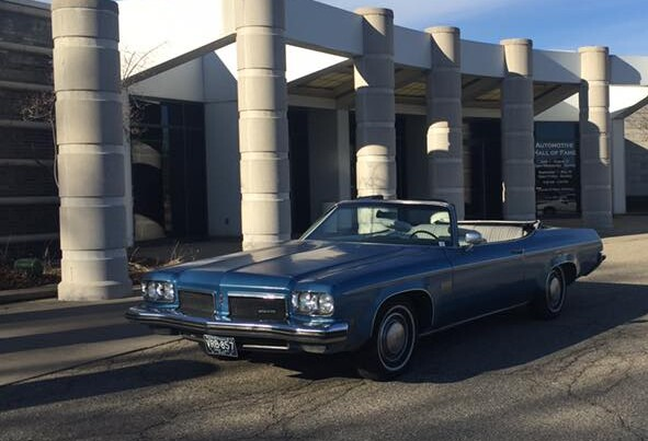 1973 Oldsmobile Delta 88 convertible in front of the Automotive Hall of Fame in Dearborn, Michigan, USA.